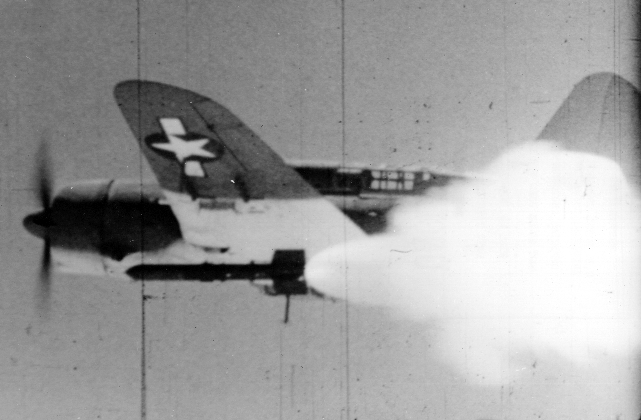 Official text: "Tiny Tim 11.75-Inch Aircraft Rocket firing from SB2C aircraft; designed by the CalTech-China Lake team as a bunker-buster, Tim was the first large aircraft rocket, and, although it saw only limited service in WWII, it helped form the foundations of many postwar developments in rocketry."